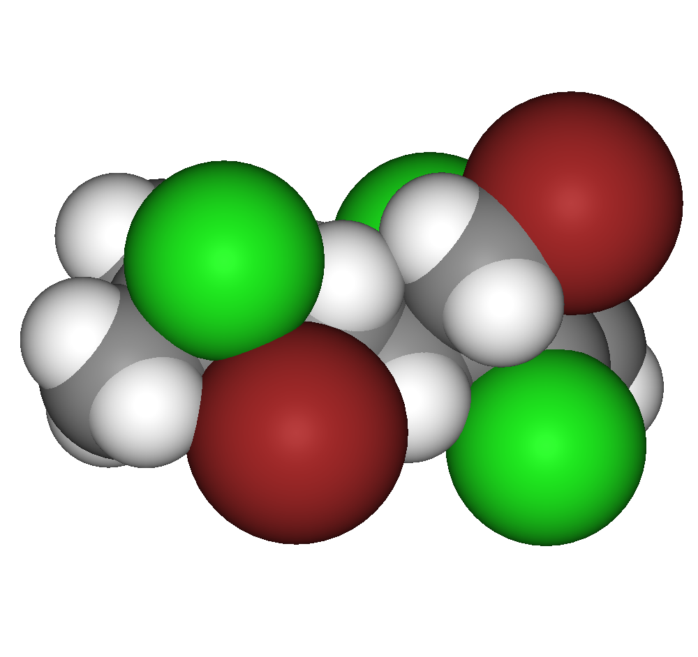 chemical structure of halomon